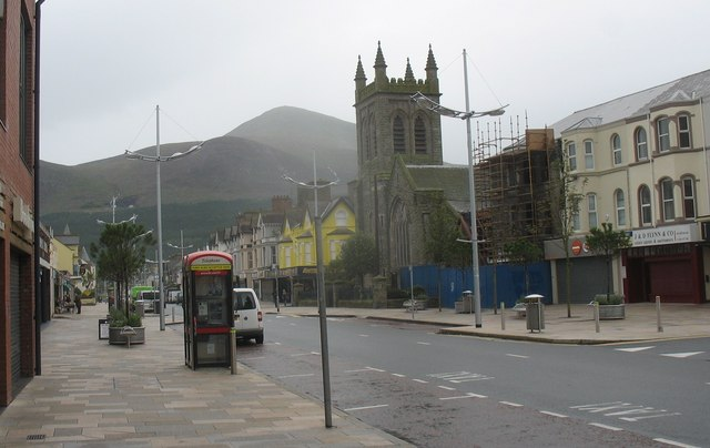 Before the shops open - Main Street, Newcastle in the early morning